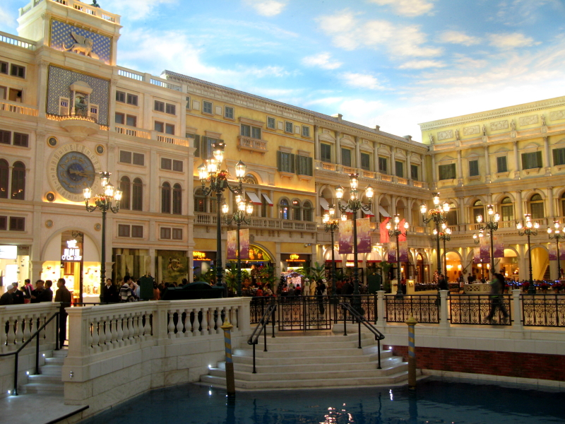 The Venetian Macao The Grand Canal Shoppes St Mark's Square Square